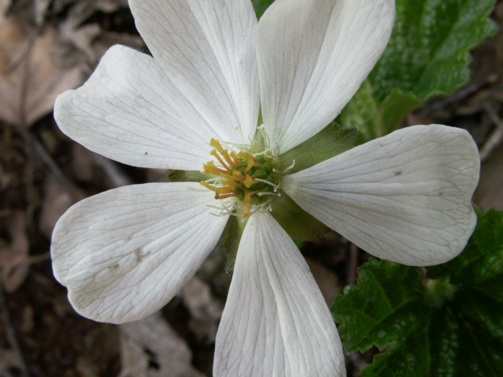 Rubus chamaemorus flower female